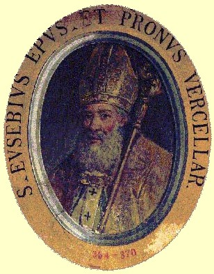 Eusebius of Vercelli, Mural in the Dome of Vercelli.